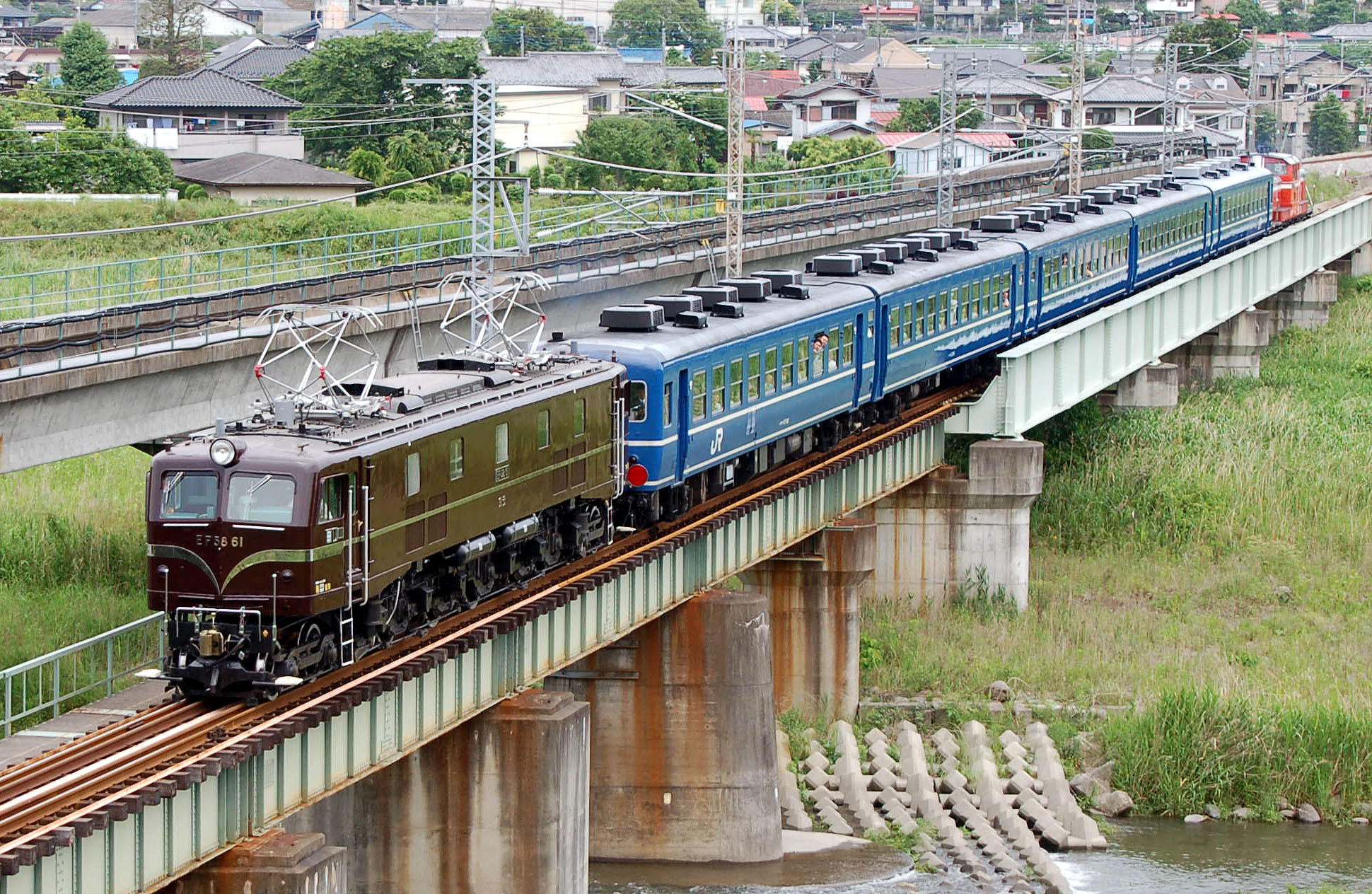 JR East EF58-61 electric locomotive towing type12 passenger cars. JR東日本EF58形電気機関車61号機牽引による12系客車列車。群馬八幡-安中間にて。